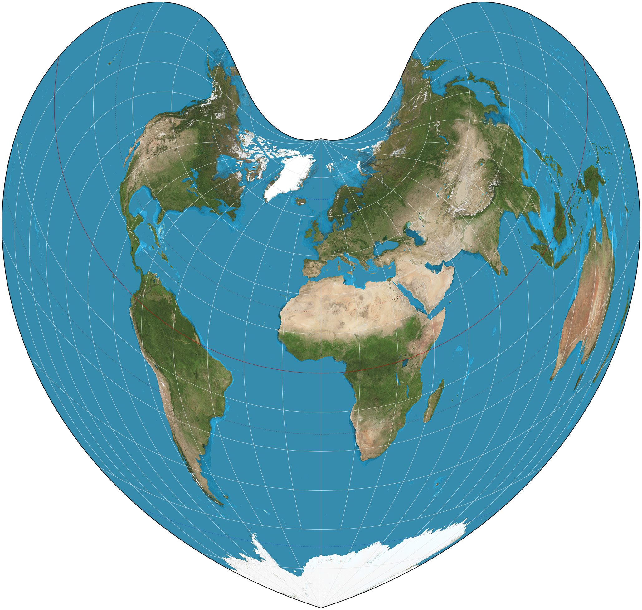 The world on Bonne projection. 15° graticule, 45° standard parallel. Imagery is a derivative of NASA’s Blue Marble summer month composite with oceans lightened to enhance legibility and contrast. Image created with the Geocart map projection software.